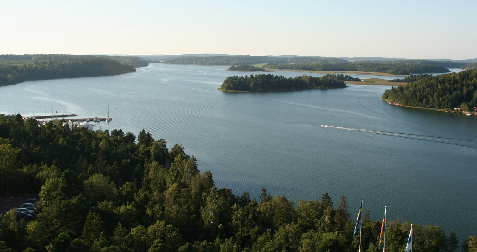 Färjsundet strait from Höga C tower in Finström, Åland, Finland